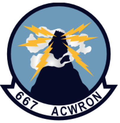 667th Aircraft Control and Warning Squadron emblem. Approved 2 July 1959.